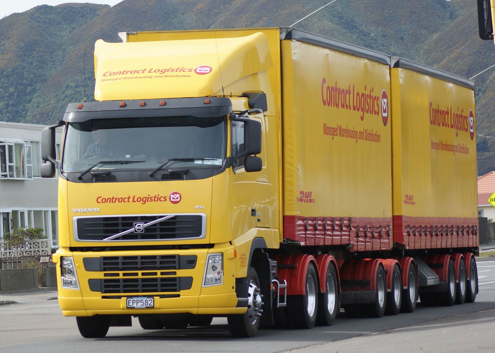 New Zealand Trucks